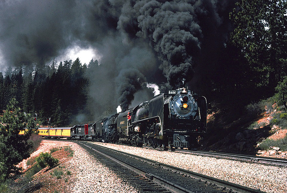 UP 8444 with 3985 Andover April 1981rp